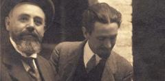 Italian writer, poet and journalist od XIX century Sebastiano Satta with sculptor Francesco Ciusa